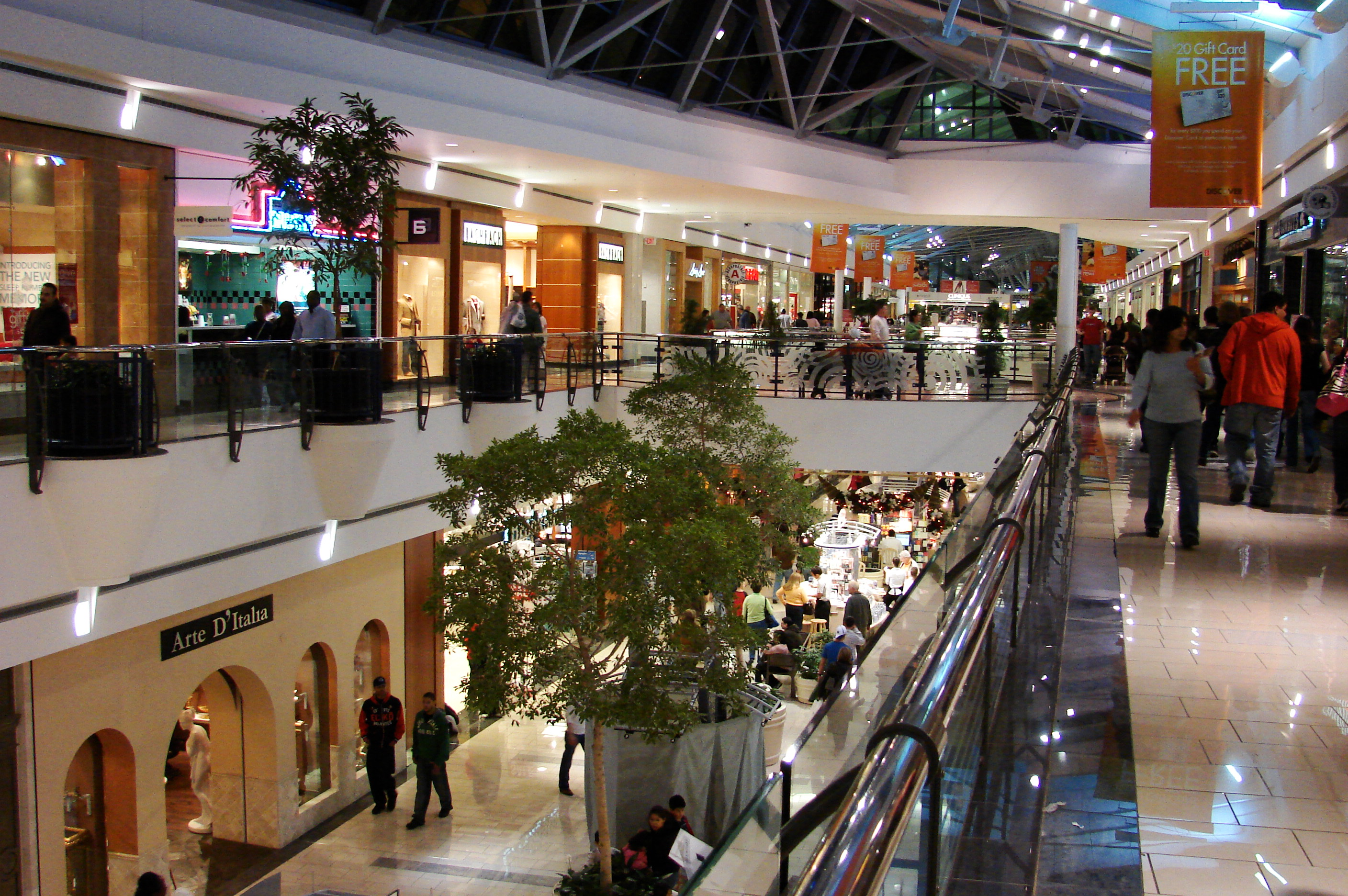 Stonebriar Centre shopping mall in Frisco, Texas.